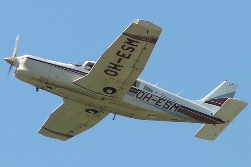 Piper Saratoga taking off at Helsinki-Malmi Airport in 2005